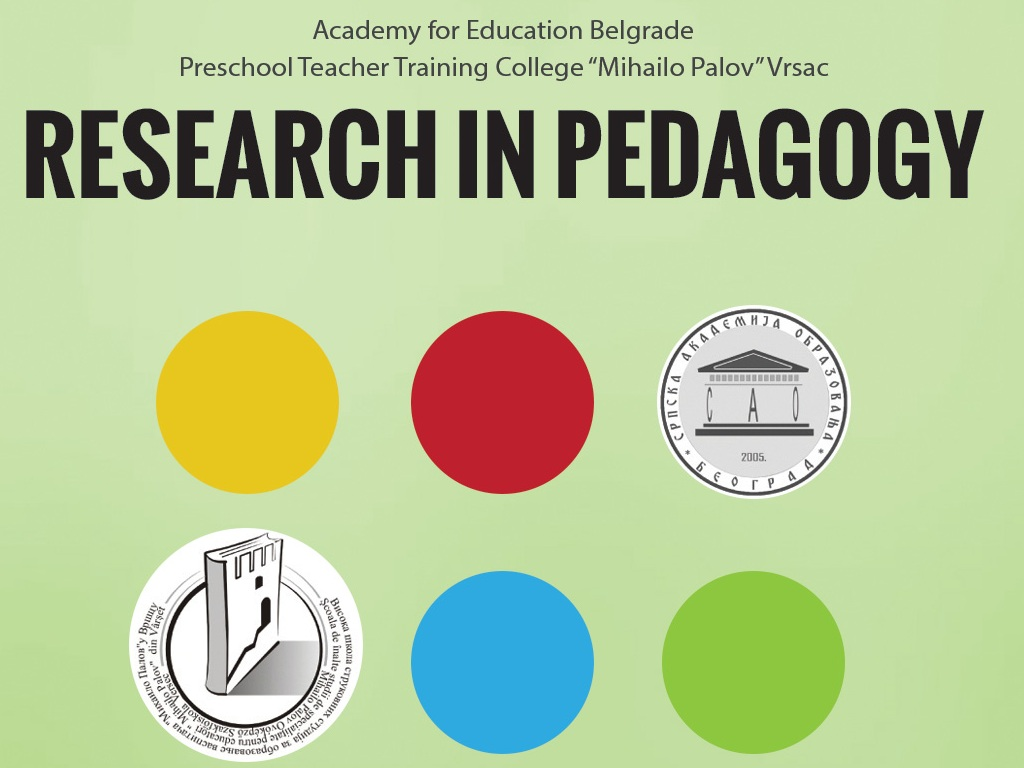 This is the front page of the scientific journal Research in Pedagogy.